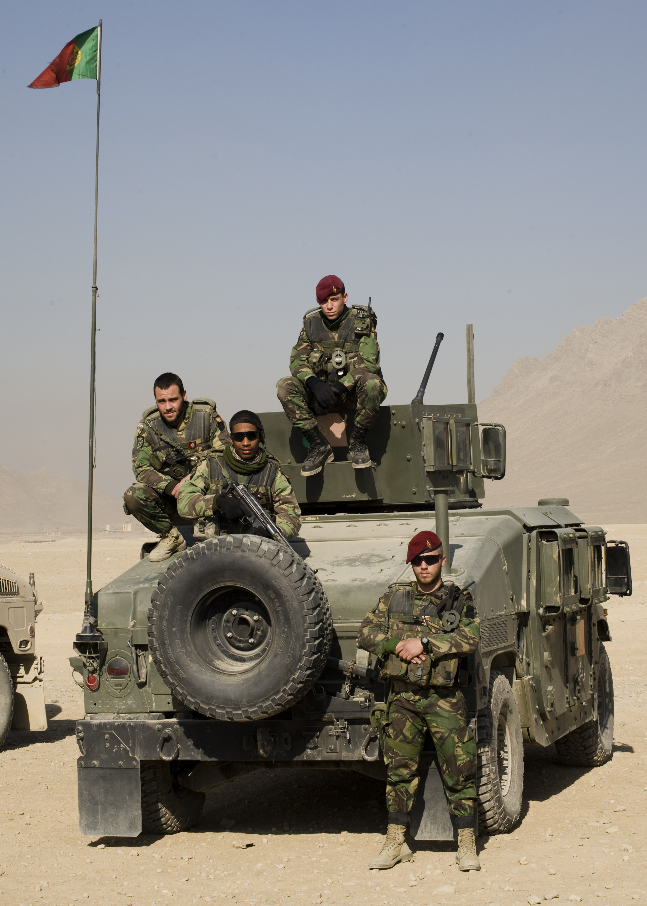 From top to bottom left to right: Portuguese army commandos Pfc. Hugo Martins, from Algarve; Pfc. Helder Vale, from Viana do Castelo; Pfc. Eder Alves, from Lisbon; and Pfc.Mario Gordinho, from Algarve, pose for a photo in Kabul Military Training Center, Jan. 121. The commandos provide extra-security to advisors assigned to NATO Training Mission-Afghanistan. Advisors from several different countries, including Portugal help Afghan National Army instructors teach recruits at the center.